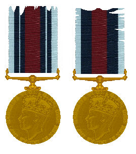 Indian Police Medal Medal for valour and medal for merit.